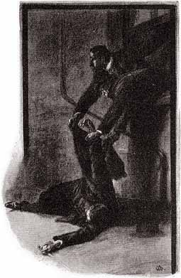 Arthur Conan Doyle, The Adventure of the Bruce-Partington Plans (1908), Illustration by Arthur Twidle, in The Strand Magazine